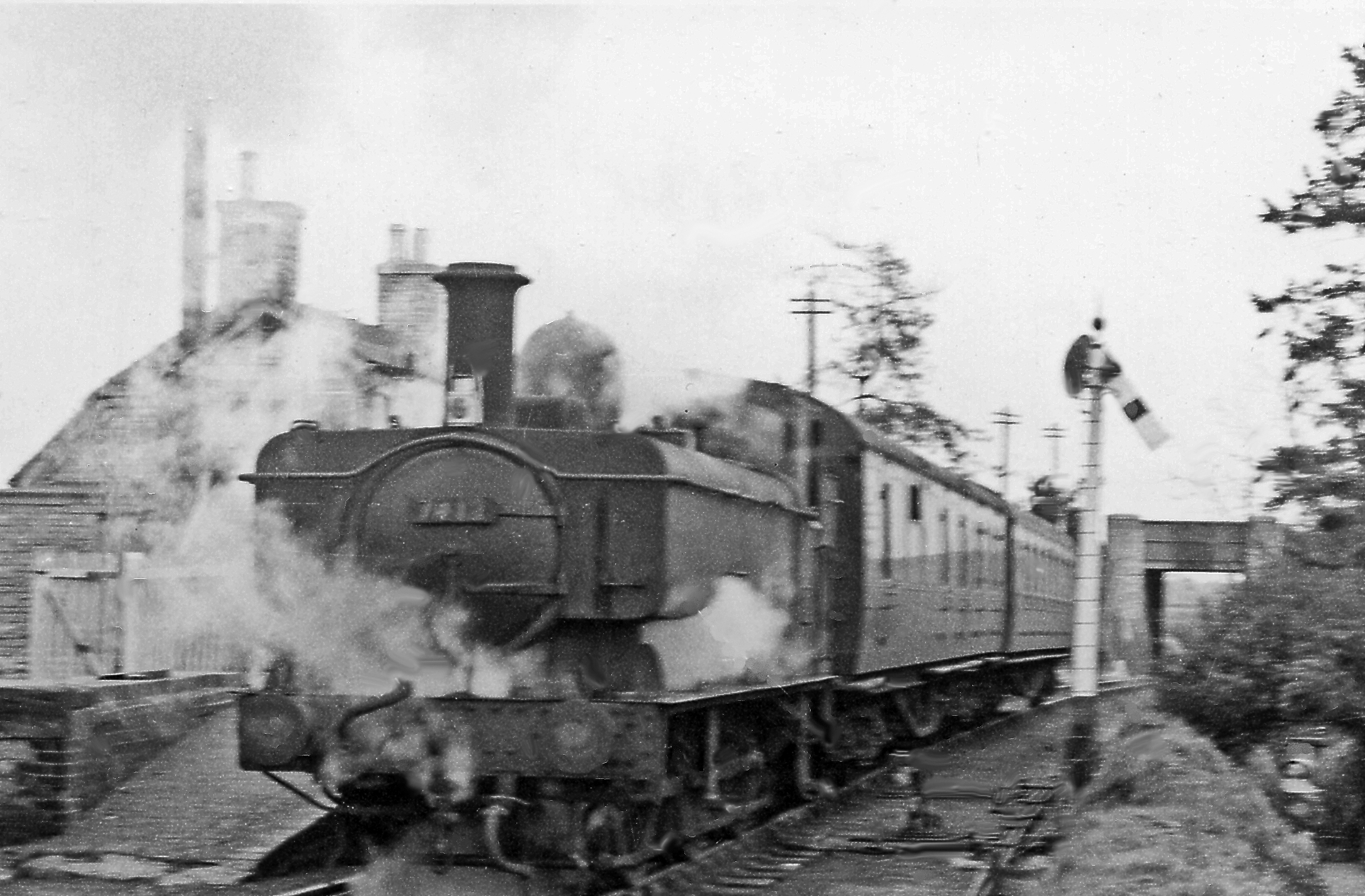 Local train from Oxford at Fairford. View eastward, towards Witney and Oxford: end of the line, which branched off the Worcester main line out of Oxford at Yarnton. On a wintry day four months before the branch closed on 16/6/62, Collett '7400' class auto-fitted 0-6-0PT No. 7412 (built 12/36, withdrawn 7/63) has arrived with the 12.44 from Oxford.